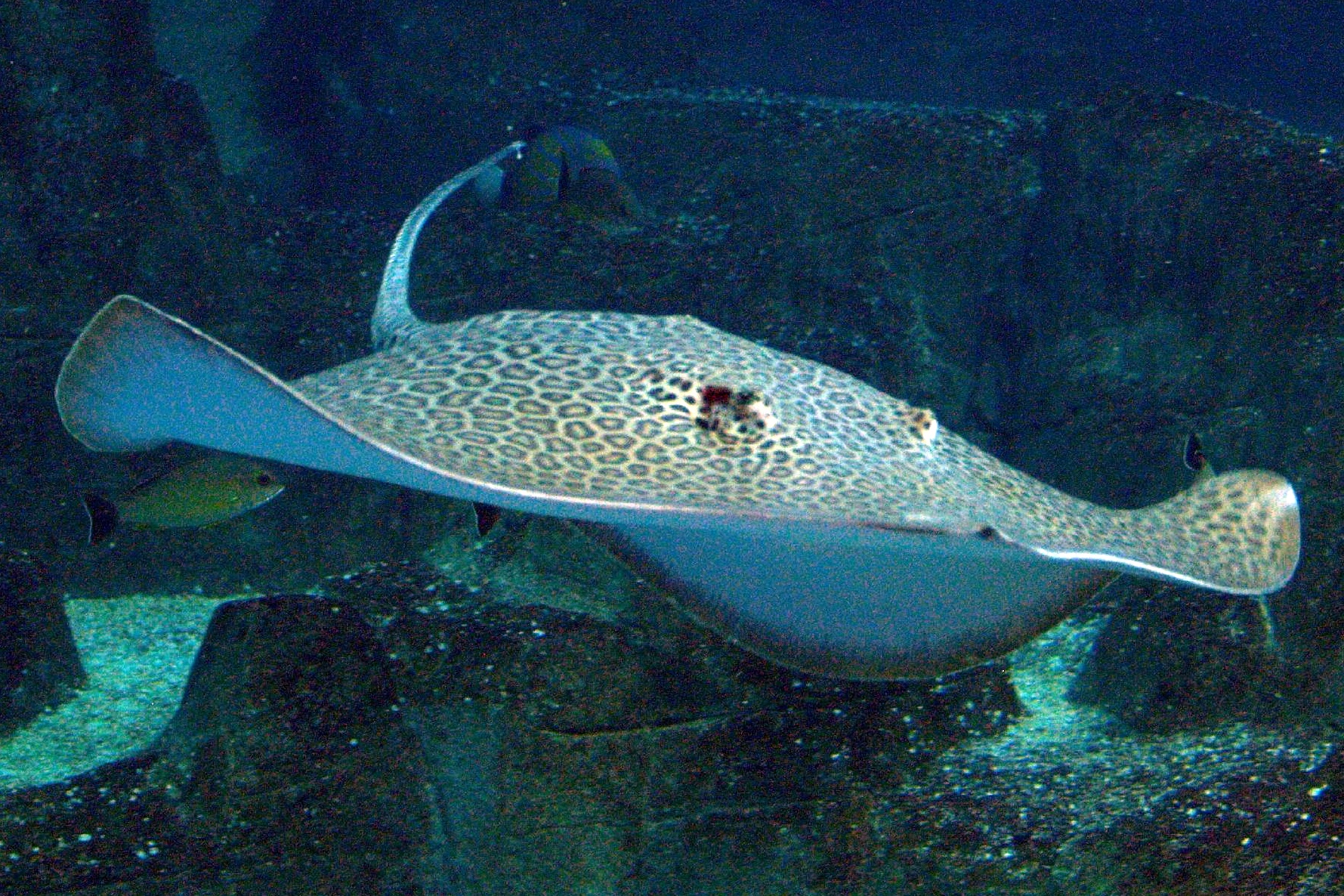 Leopard whipray (Himantura leoparda) at Farglory Ocean Park.